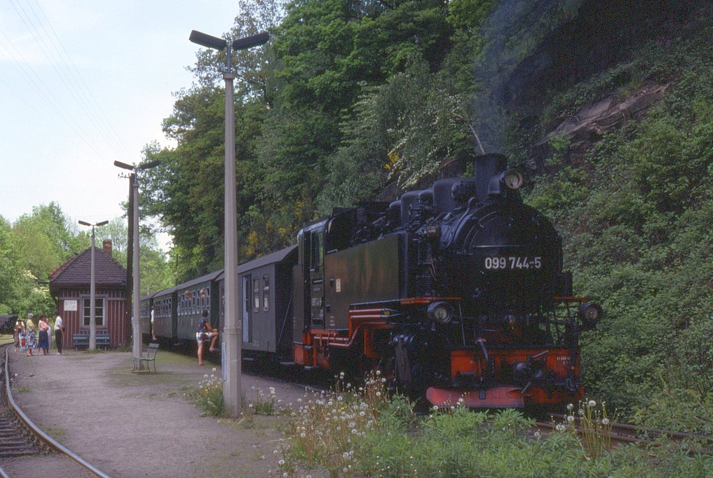 On the way up to Kurort Kipsdorf on the other narrow gauge branch known as Weißeritztalbahn which is again close to Dresden. Out of the two, this one is more of a climb into some hilly terrain again terminating at a spa resort. Seen here at Dippoldiswalde on 23 May 1992, again during a stop to cross over with a train in the opposite direction. Haulage is one of the familiar 2-10-2T oil fired locos found on the former East German narrow gauge systems. The loco in question is 099.744, train 14265, 12:00 Freital-Hainsberg to Kurort Kipsdorf. (099 744-5 = 99 1780-8 = 99 780) As with all lines that were in DR, later DB ownership they survived into the private sector. Today, the operation is run by Sächsische Dampfeisenbahngesellschaft GmbH who look after the other Dresden area line as well as that from Cranzahl to Kurort Oberwiesenthal.